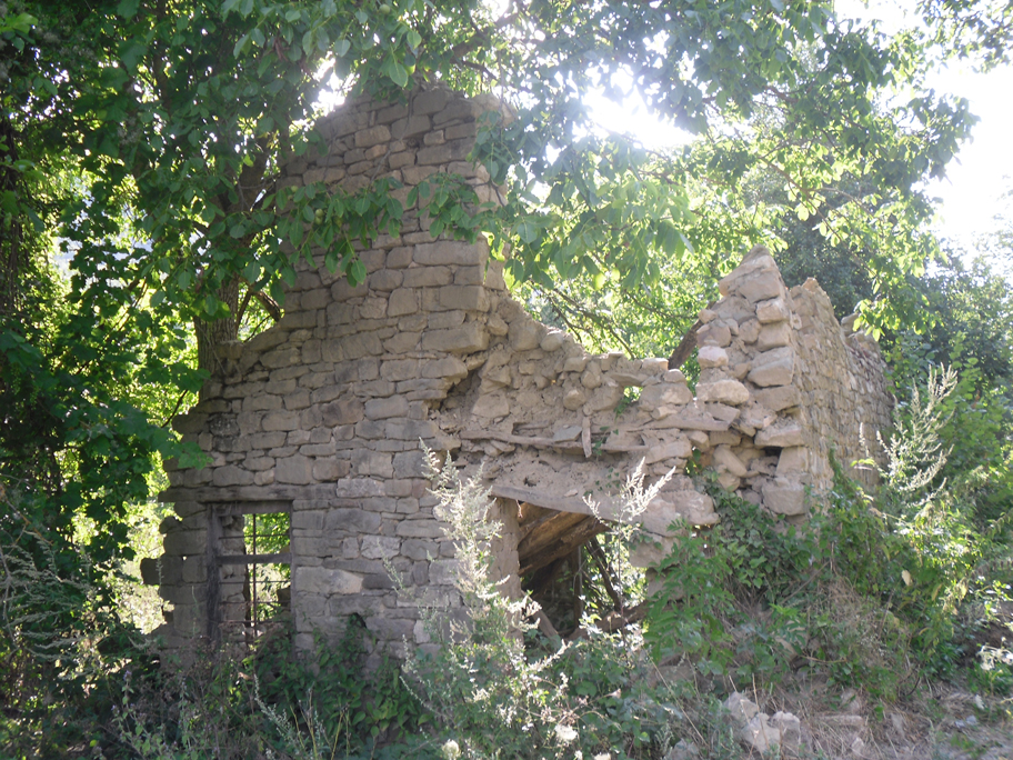 Една од двете речиси целосно урнати ќуќи која стои во с. Чука.